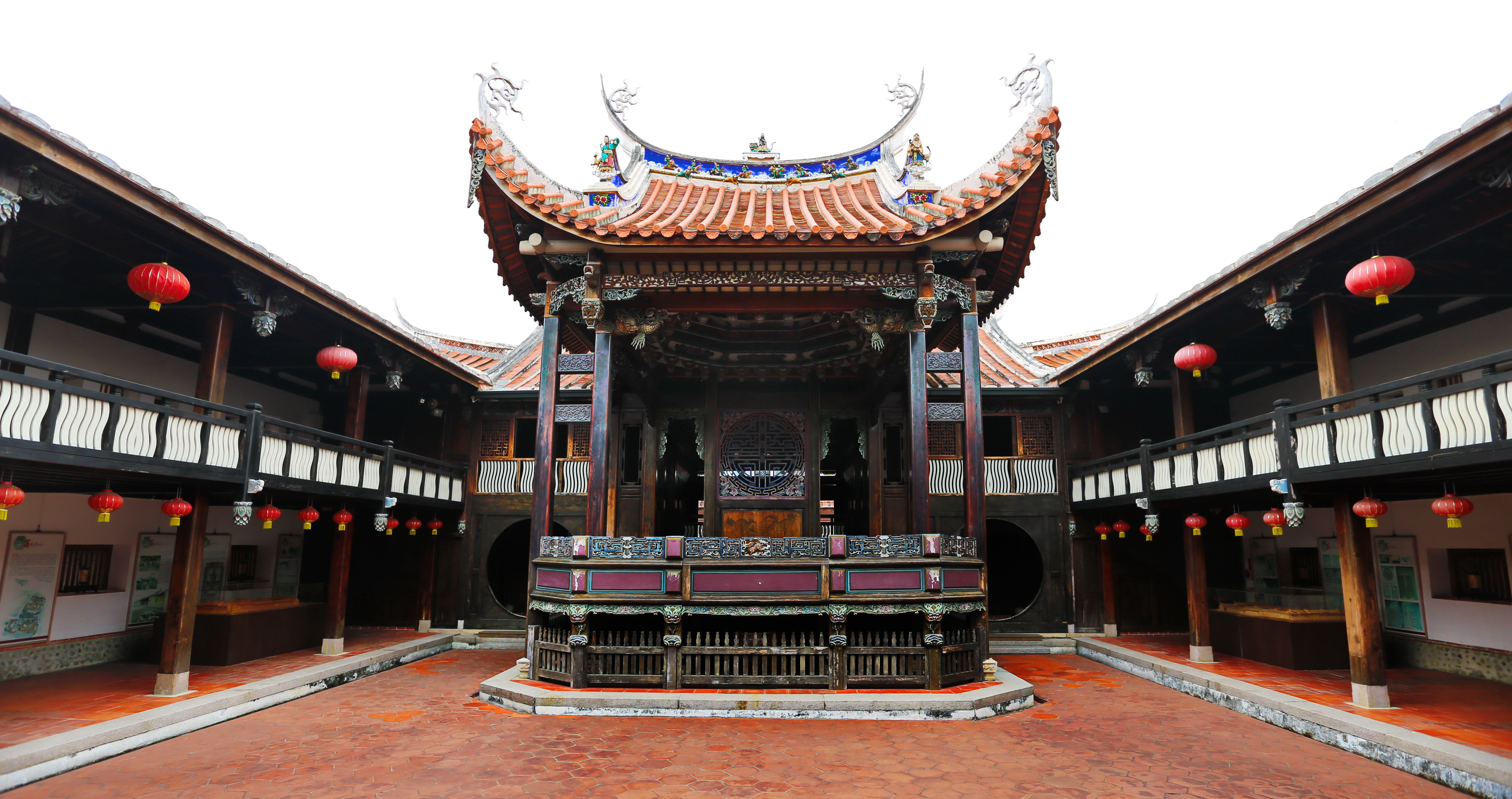 Wufeng Lin Family Mansion and Garden, the theatrical stage of the Great Flower Hall, Wufeng District, Taichung City, Taiwan.